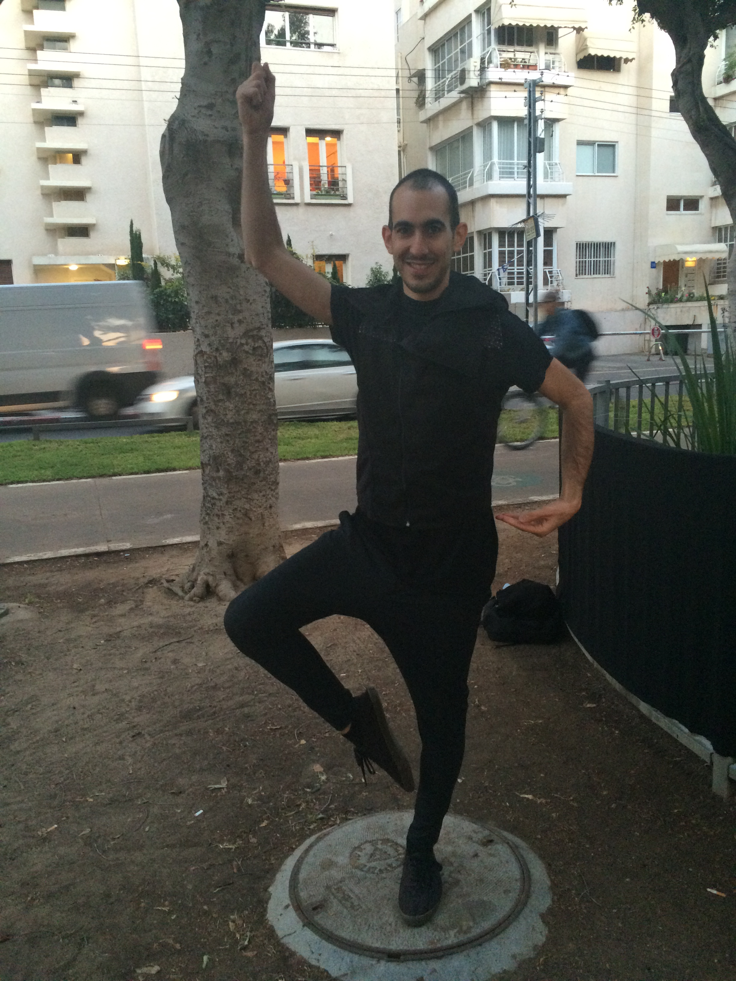 Playback Theatre in Tel Aviv